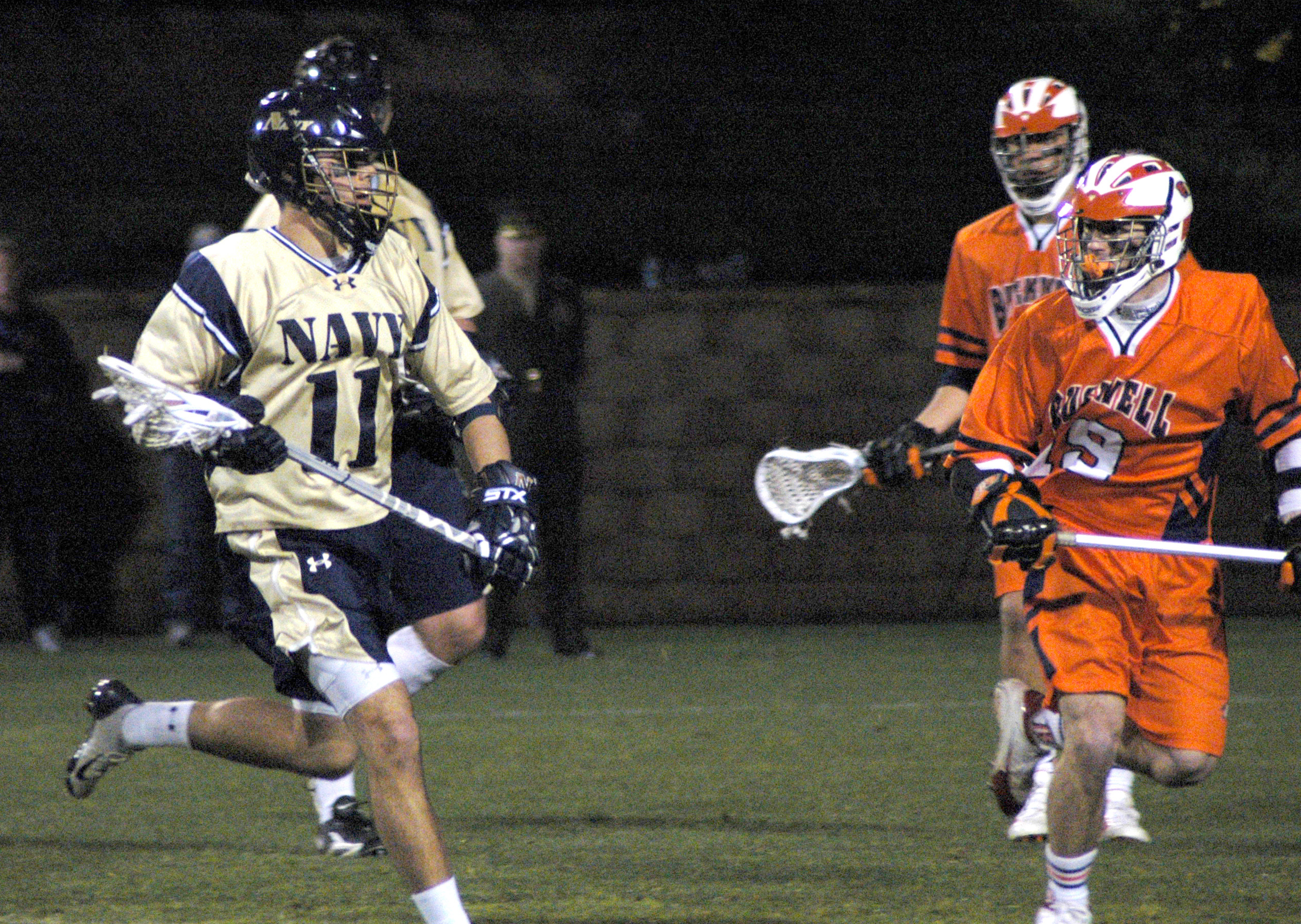 (original Navy caption): Naval Academy lacrosse team midfielder Terence Higgins carries the ball into Bucknell territory during the First 4 Men’s Lacrosse Invitational held at the University of San Diego. The Navy Midshipmen defeated the Bucknell Bisons 9 to 5.